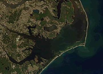 NASA photo, from Cropped to show NC's Pamlico Sound